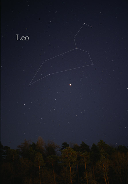 Photography of the constellation Leo, the lion